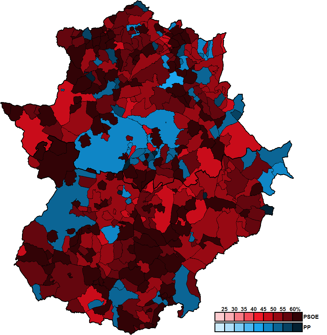 Most-voted party in Extremadura municipalities, showing vote share obtained, in the Spanish general election, 2008.